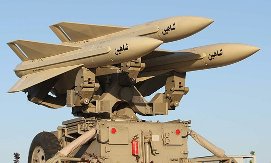 Shahin (missile)